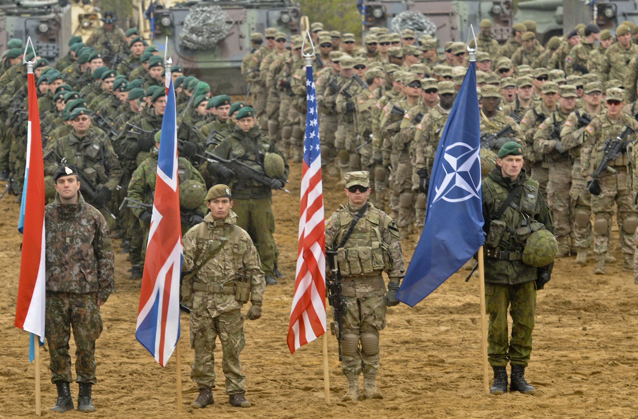 Soldiers of the 1st Brigade Combat Team, 1st Cavalry Division, and 2nd Cavalry Regiment participate in the closing ceremony for Iron Sword 2014 in Pabrade, Lithuania, Nov. 13, 2014. More than 2,500 troops from nine NATO countries, including U.S. Army Soldiers of the 1st Brigade Combat Team, 1st Cavalry Division and 2nd Cavalry Regiment, participated in the two-week multinational exercise, aimed at enhancing interoperability and demonstrating U.S. commitment to its NATO allies. (U.S. Army photo by Sgt. David Turner)